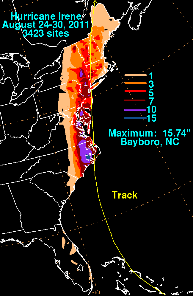 Storm total rainfall map of Hurricane Irene during August 2011.